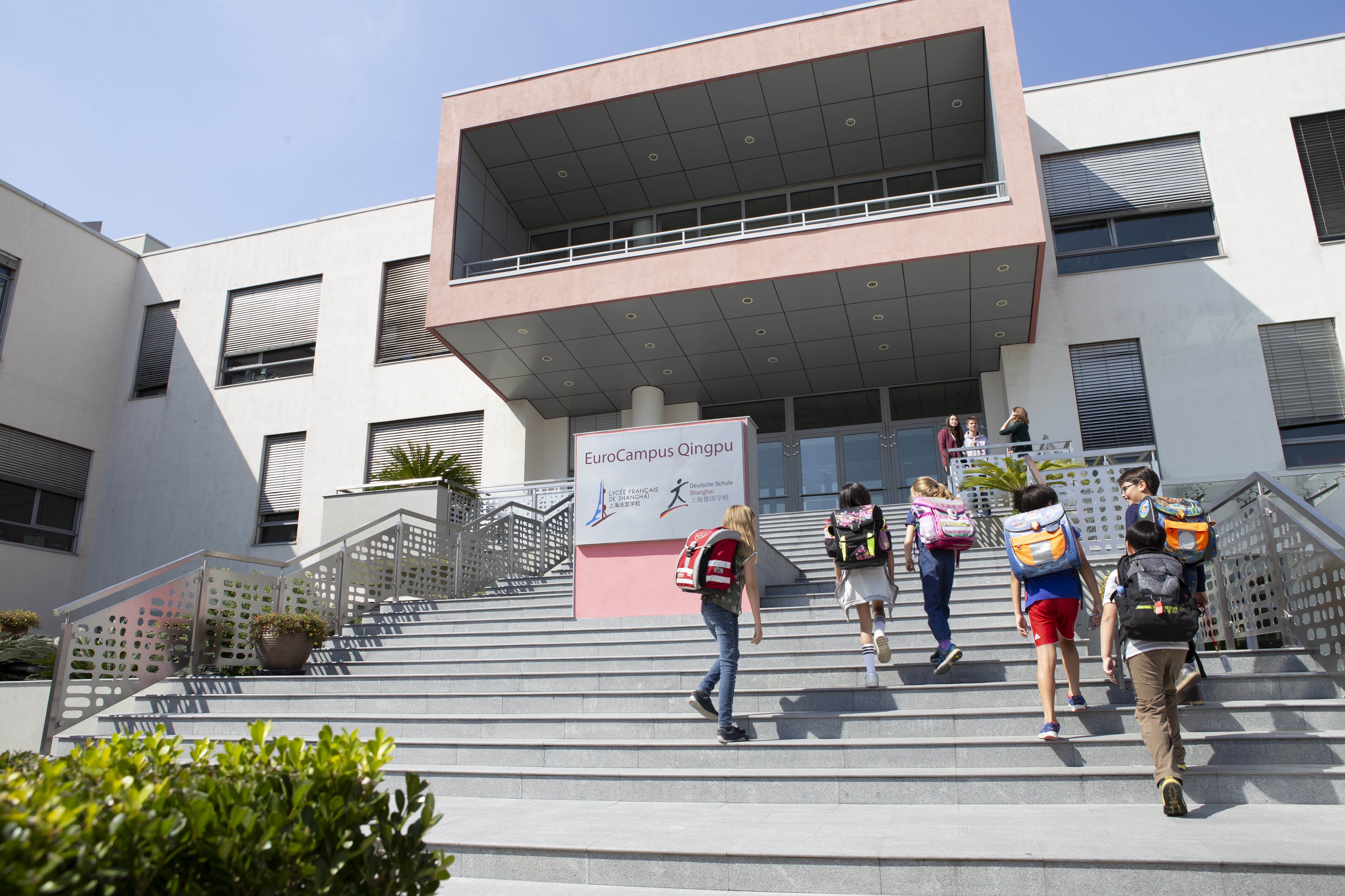 EuroCampus of the German School of Shanghai Hongqiao and the Lycee Francais de Shanghai